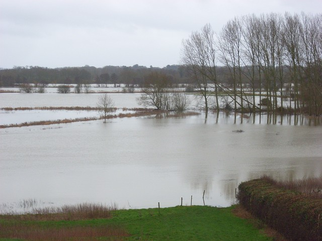 The Thames floodplain. Shiplake. A similar view to 510647. This winter flood was near its peak. The summer flood had already subsided quite a lot.